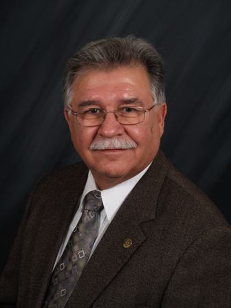 Headshot